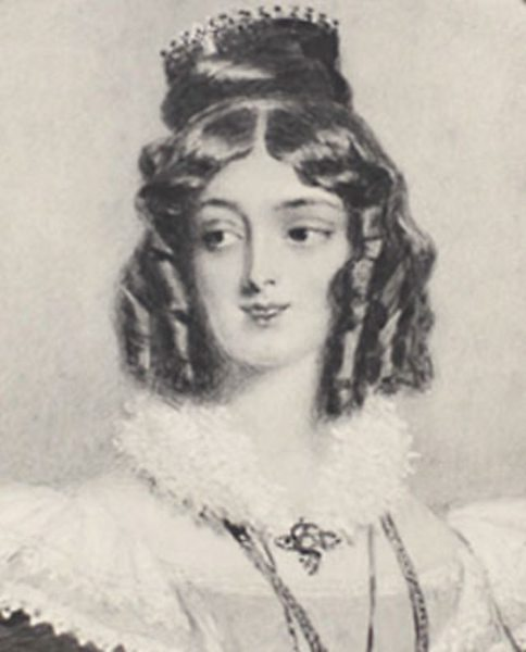 A portrait of Katherine "Kitty" Kirkpatrick, ca. 1830. Private collection.